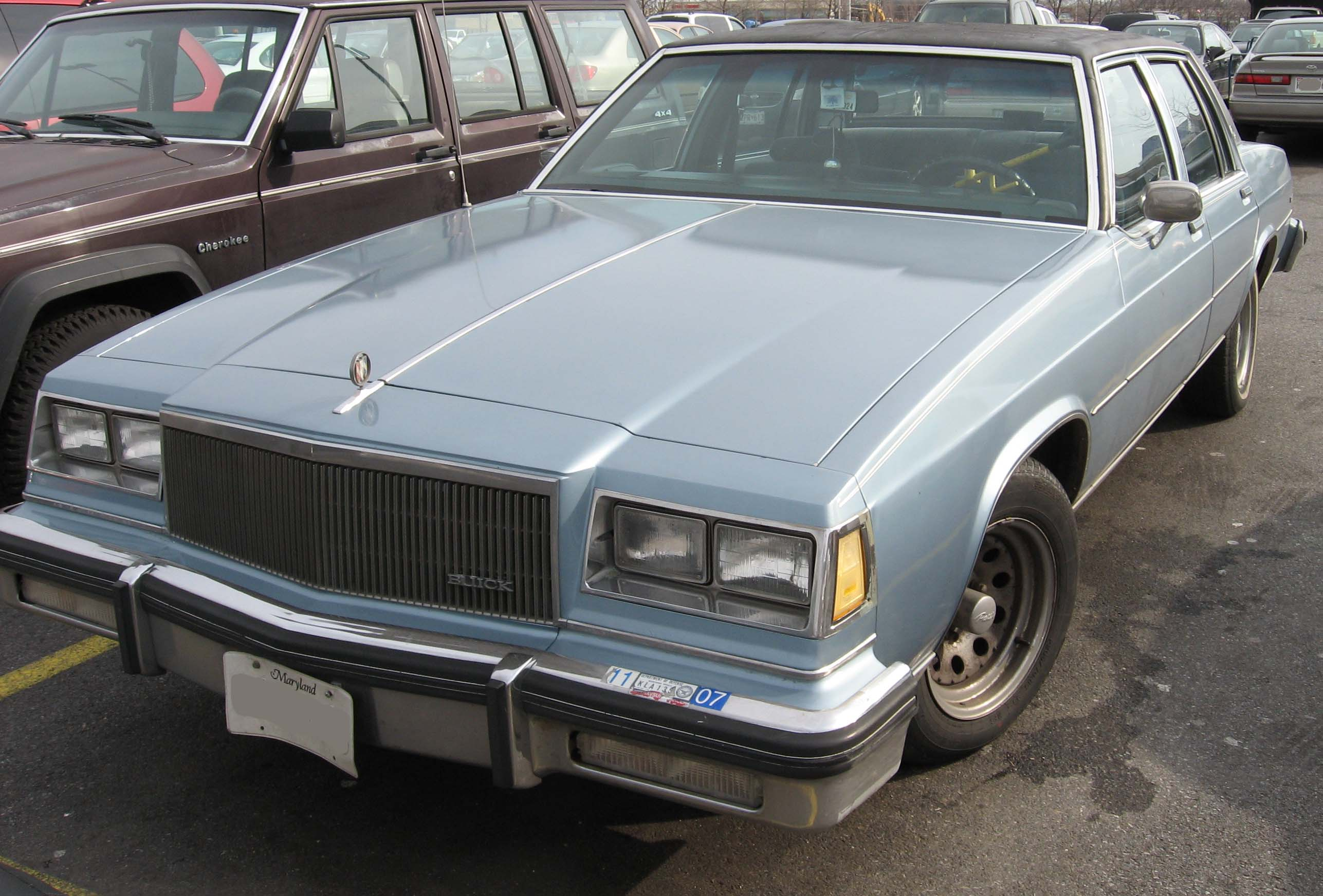 1977-1985 Buick LeSabre photographed in USA.